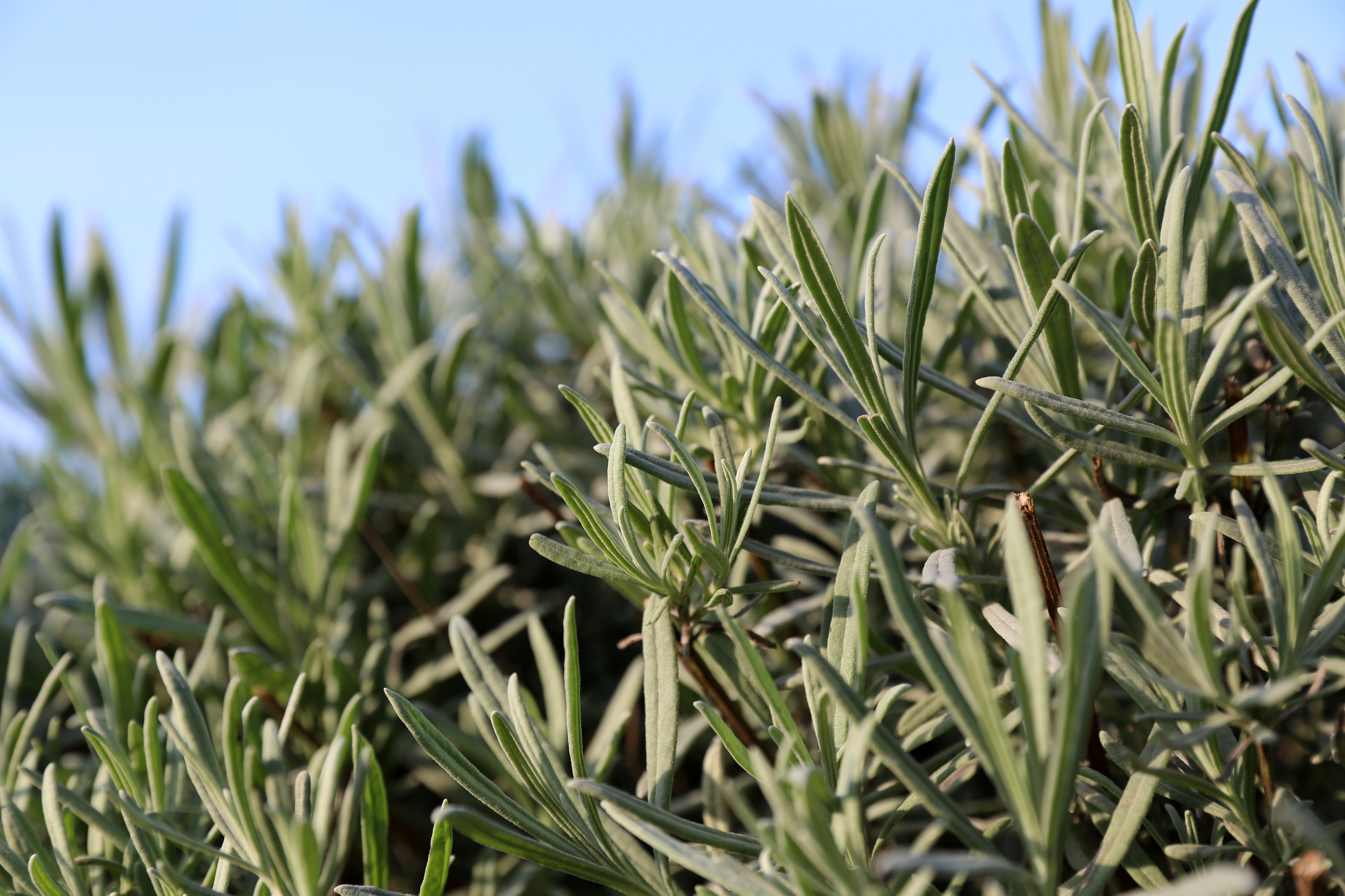 Lavandula angustifolia ("Mailette") at Blumengärten Hirschstetten in Vienna, Austria.